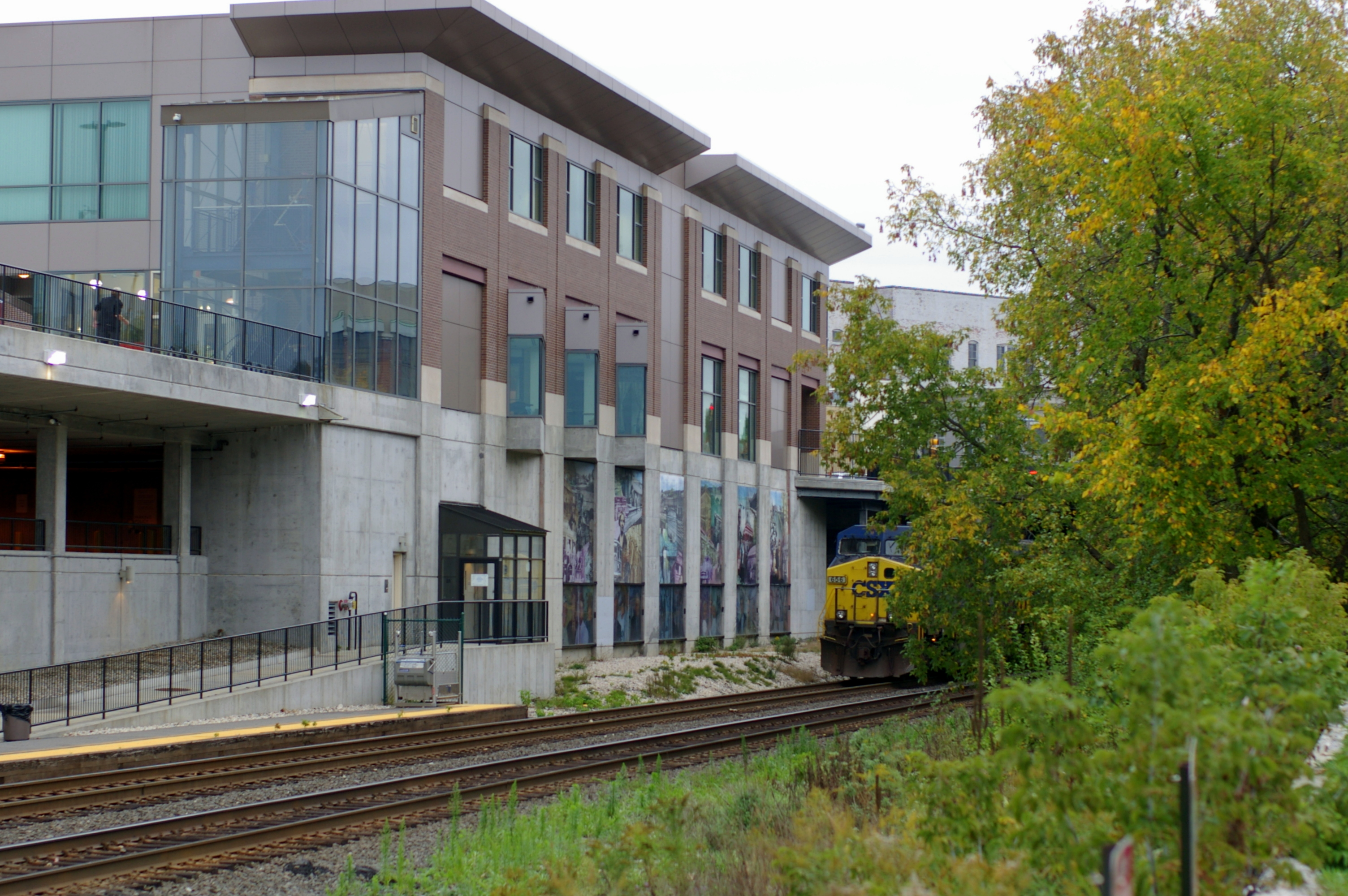 A CSX freight passes Joseph Scelsi Intermodal Transportation Center in Pittsfield, Massachusetts